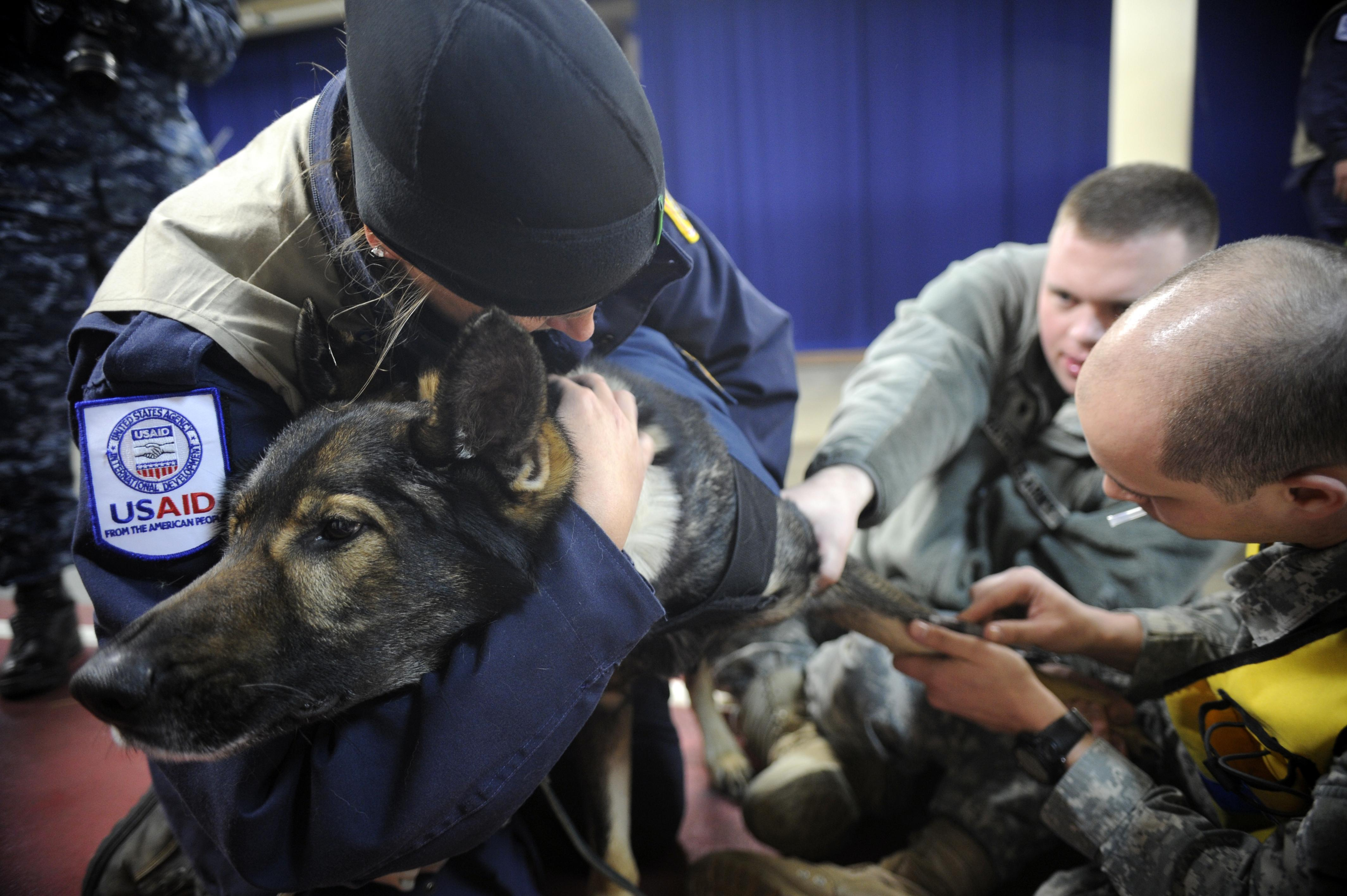 Atticus, A living human scent working dog belonging to the LA Search and Rescue Team, TF-2 has its blood taken while in processing to Misowa Air Force Base, Japan on March 11, 2011. Members of the Los Angeles Search and Rescue Team, Task Force 2 are responding to the recent national emergency in Japan due to the earthquake providing needed care and rescue techniques and tools.(U.S. Air Force photo by Technical Sgt. Daniel St. Pierre/Released) 4th Combat Camera Squadron Photo by Tech. Sgt. Daniel St. Pierre Date Taken:03.13.2011 Location:OFUNATO, IWATE, JP Related Photos